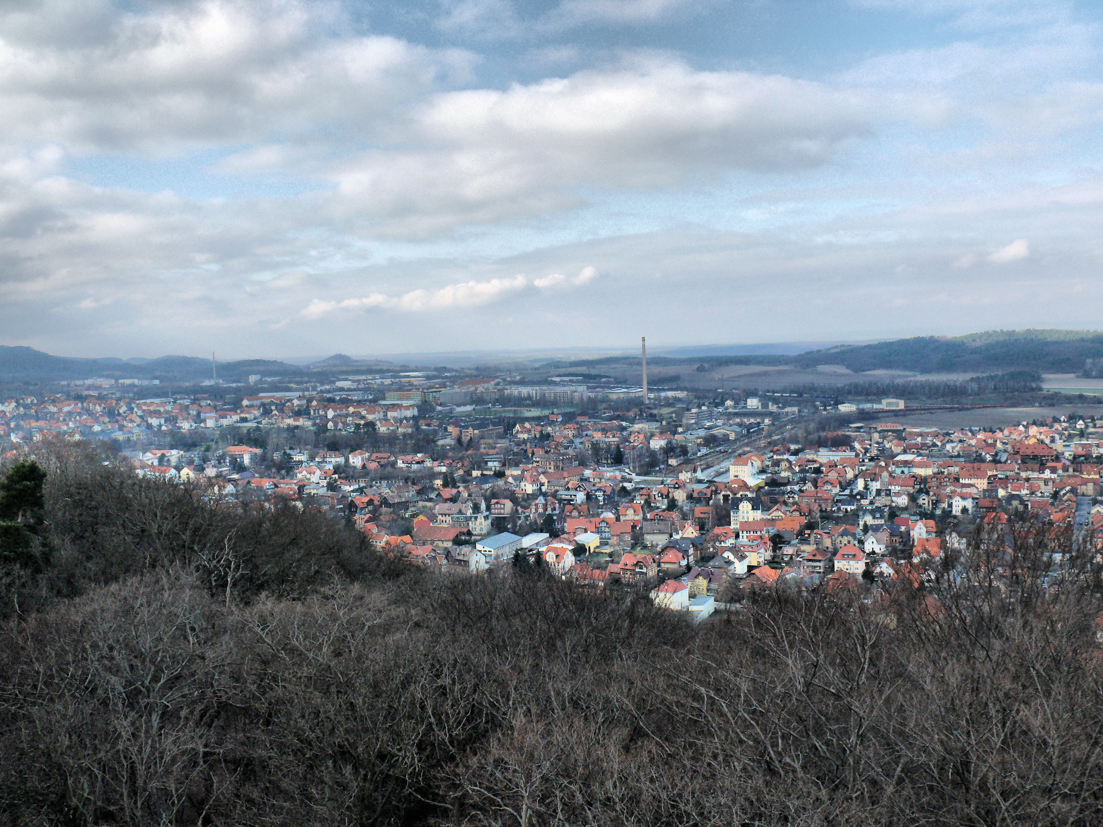 Blankenburg am Harz, seen from the Großvaterfelsen rocks. Harz mountains, Germany